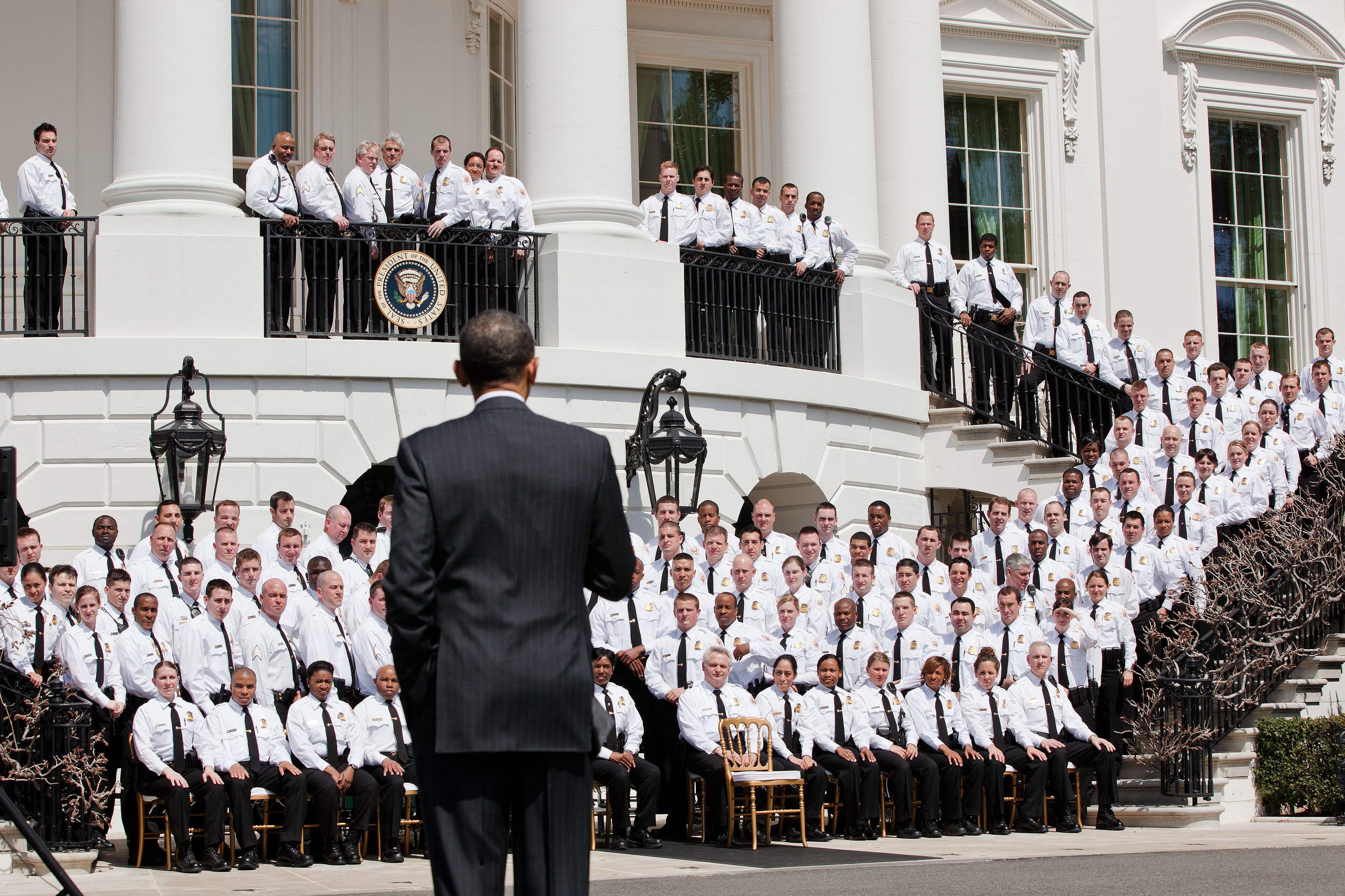 President Barack Obama addresses United States Secret Service Uniformed Division officers before a group photo at the South Portico of the White House, April 4, 2011. (Office White House Photo by Pete Souza)